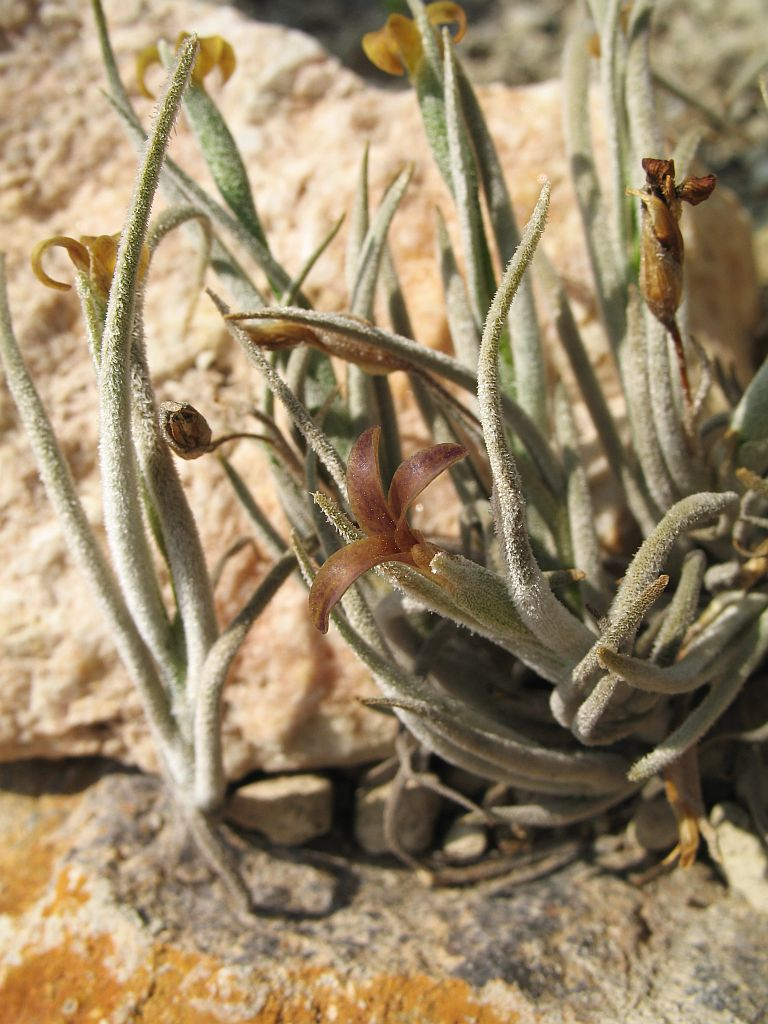 Tillandsia kuehhasii in cultivation at the Botanical Garden of Heidelberg, Germany.